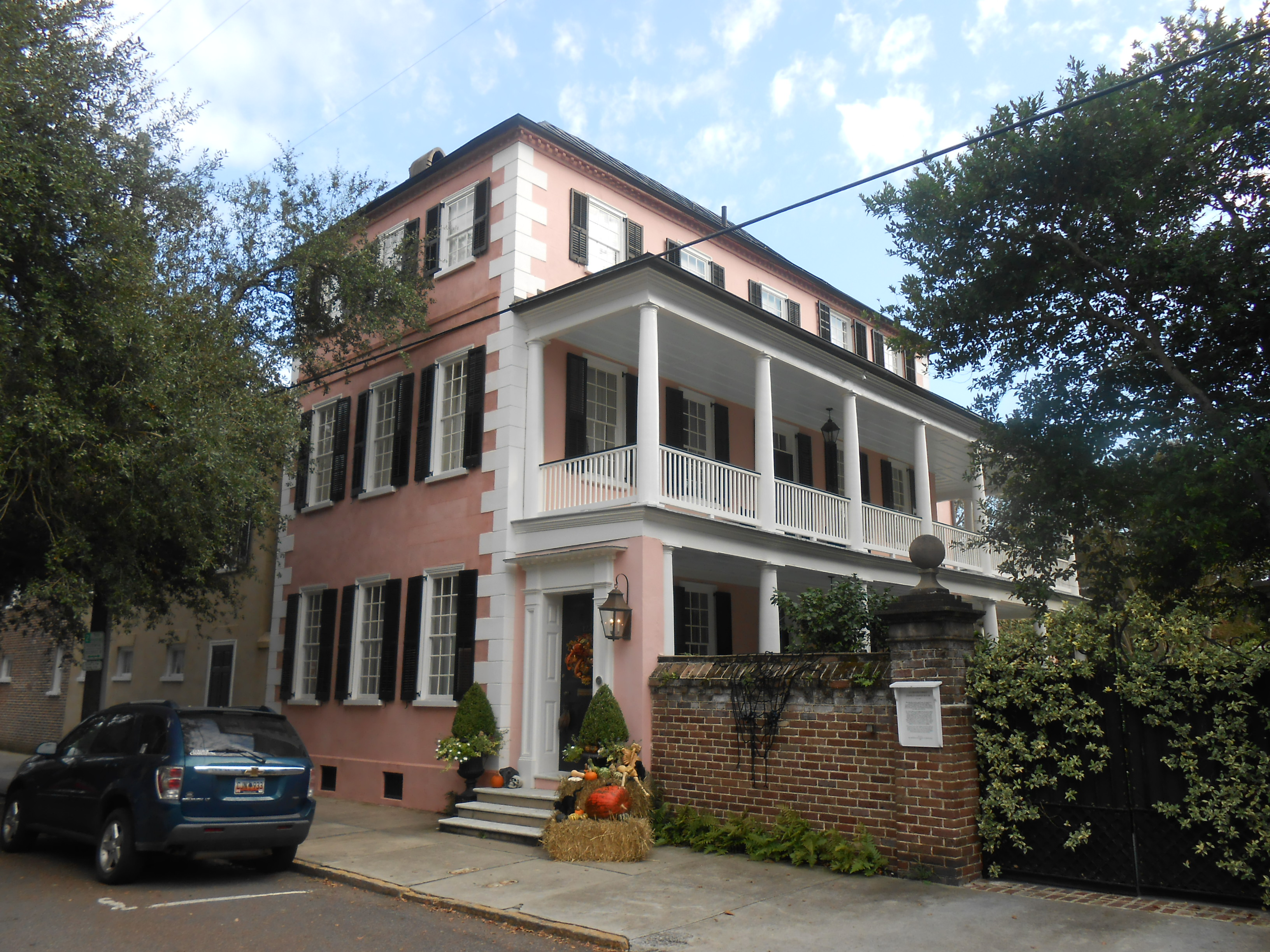 This pre-Revolutionary house at 123 Tradd St., Charleston, South Carolina is a fine example of a Charleston single house.